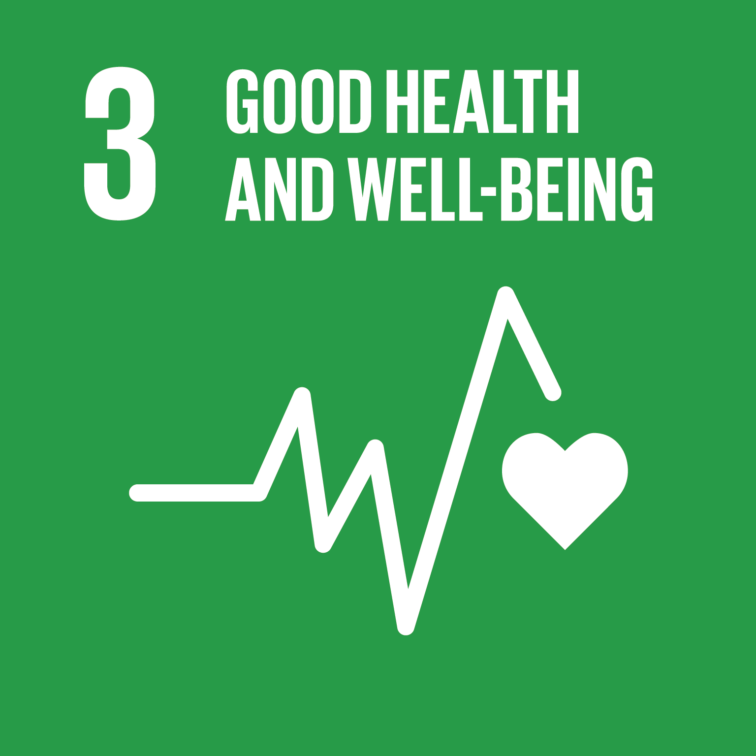 SDG3 Good Health and Well-beingRomână: Obiectivul de dezvoltare durabilă nr. 3: Sănătate bună (în engleză)